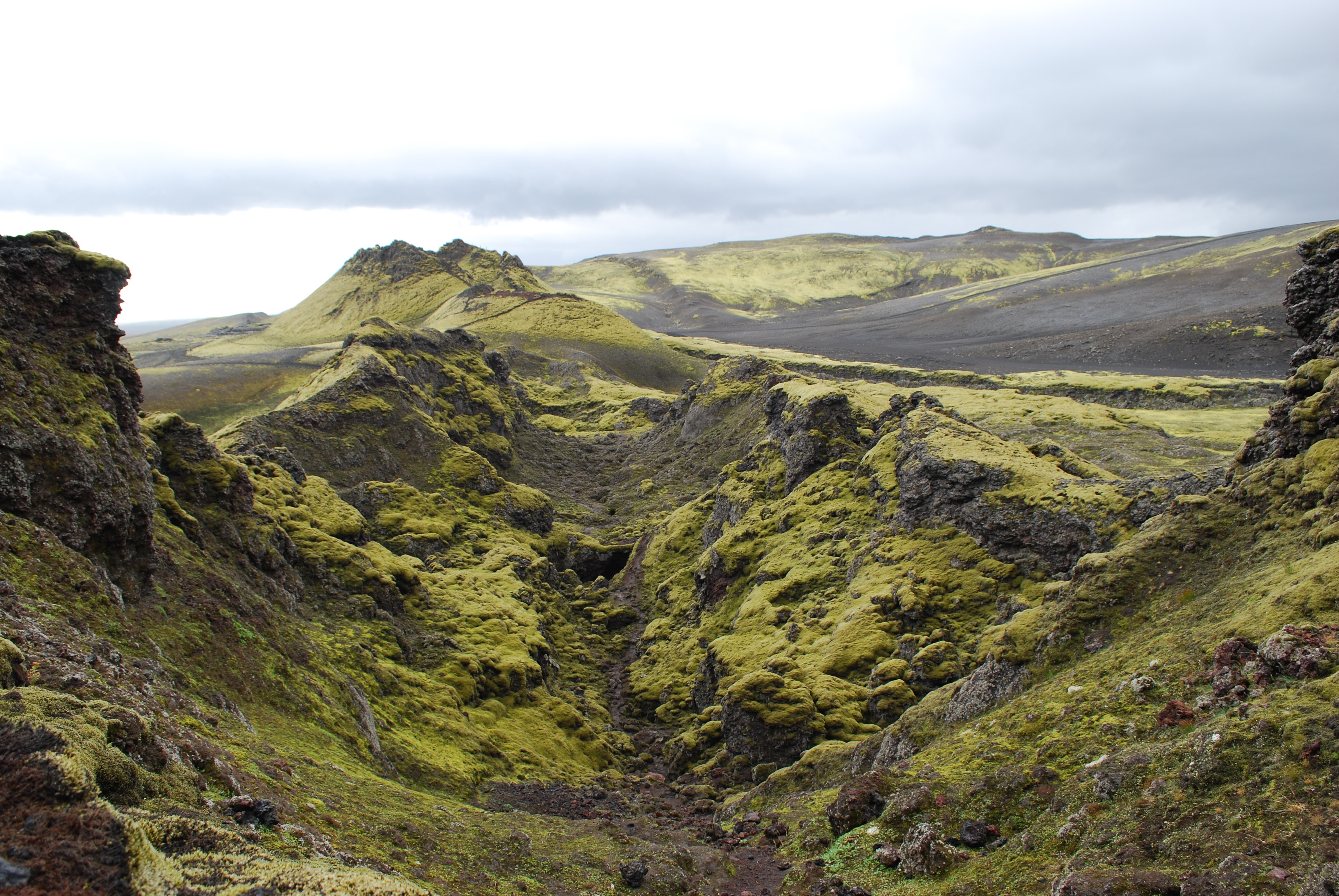 Sight to the central fissure of Laki volcano, Iceland